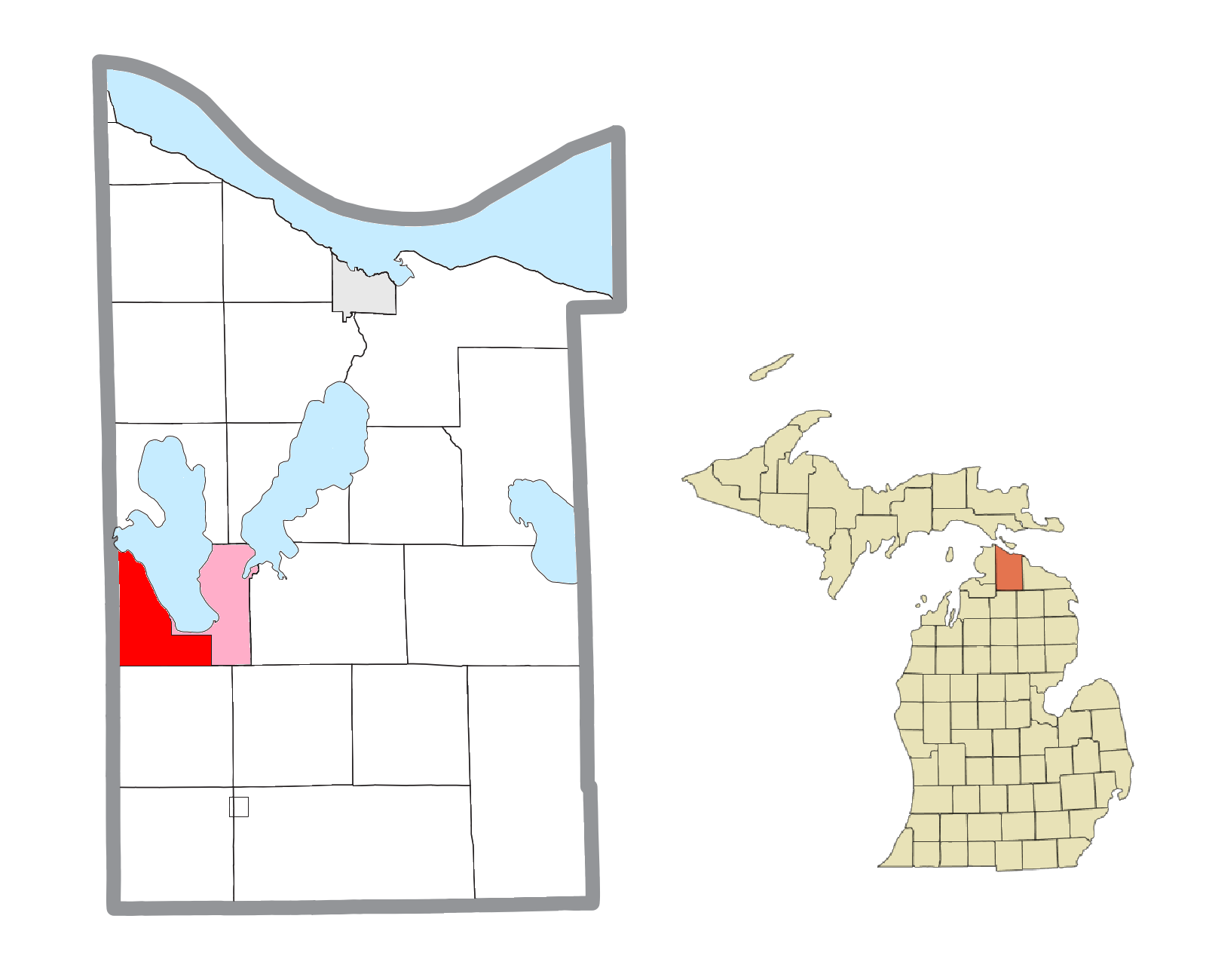 Tuscarora Township, MI